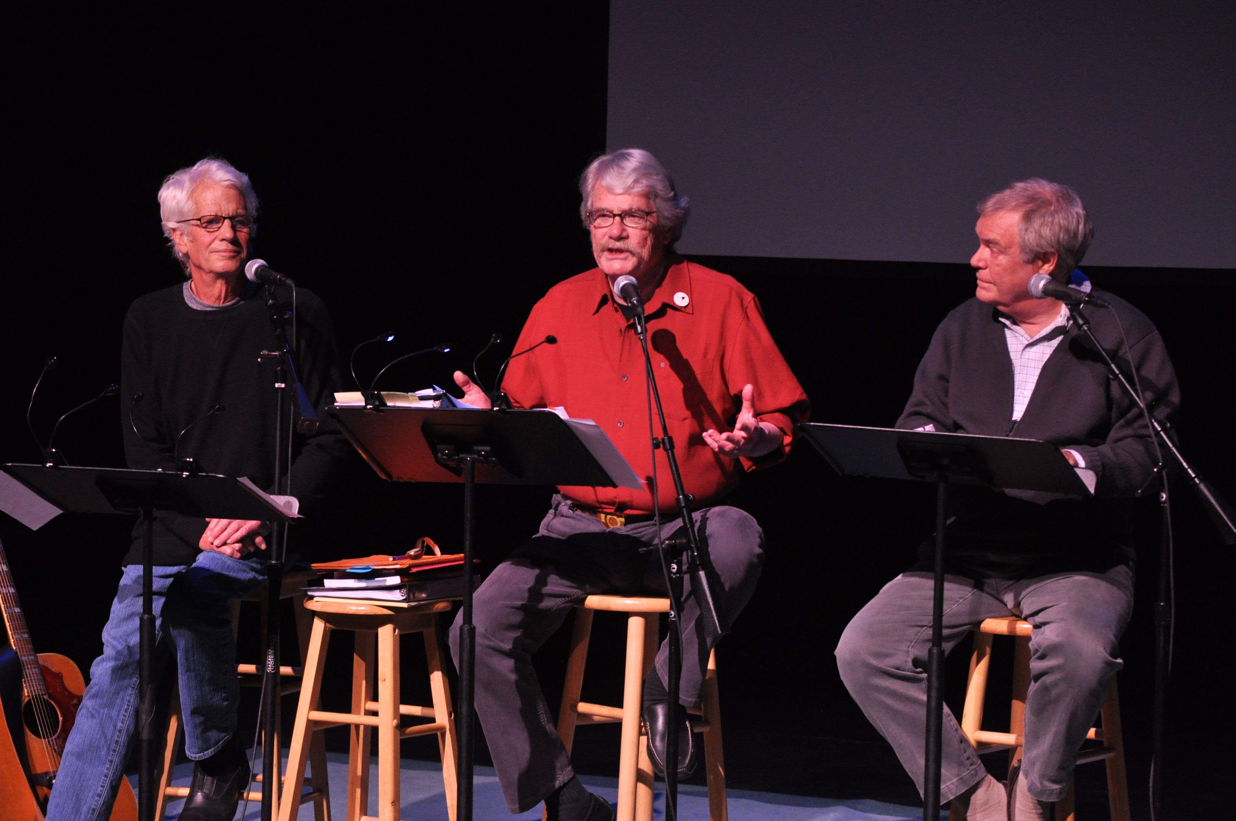 The surviving members of the Firesign Theatre pay tribute to the late Peter Bergman: the "Big Brouhaha," April 21, 2012 at the Kirkland Performance Center, Kirkland, Washington, USA. Left to right: Philip Austin, David Ossman, Philip Proctor.